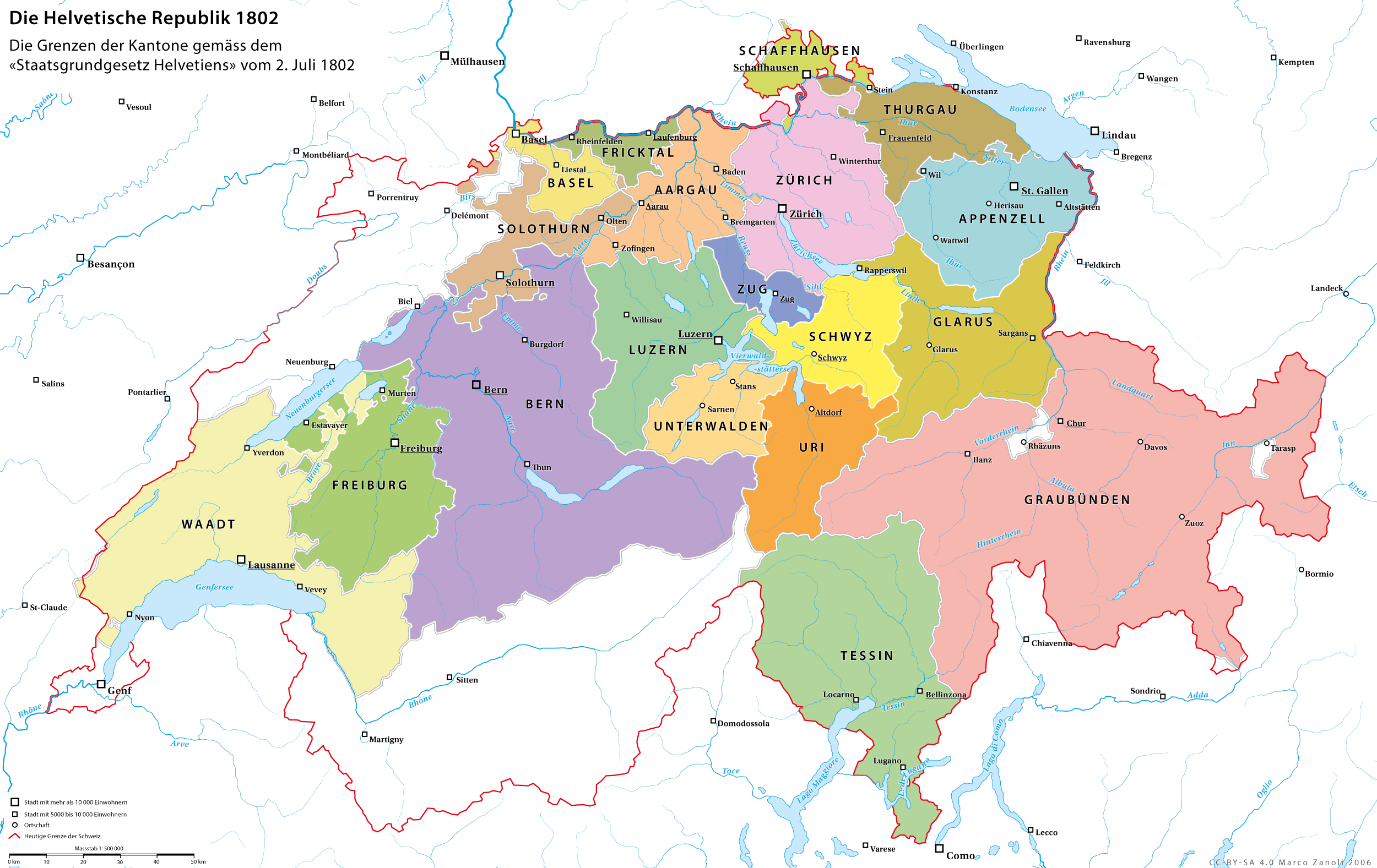 The Helvetic Republic according to the Second Helvetic Constitution of 25 May 1802, accepted by popular vote in June. The Canton Fricktal was founded 20. February 1802, the Valais gained independence 25 July 1802 according to Napoleons orders.